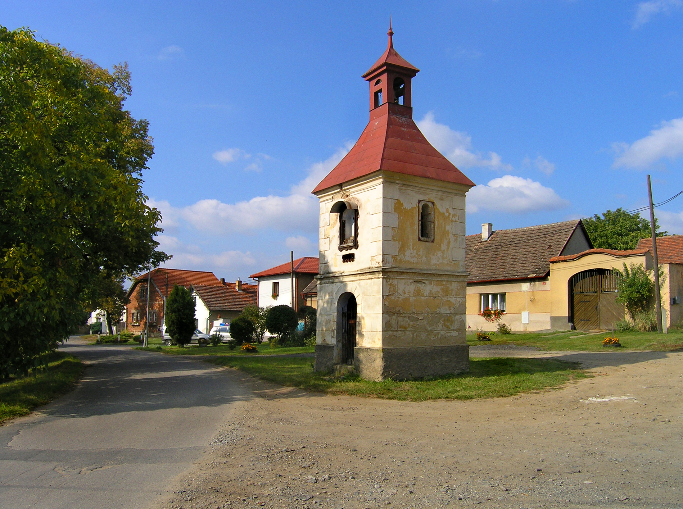 Bell tower in Třebohostice, part of Škvorec village, Czech Republic